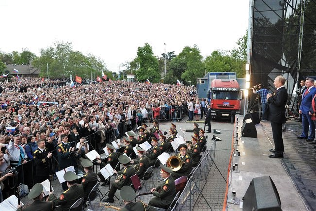 Gala concert to mark the 69th anniversary of Victory in the Great Patriotic War and 70th anniversary of the liberation of Sevastopol from Nazis.